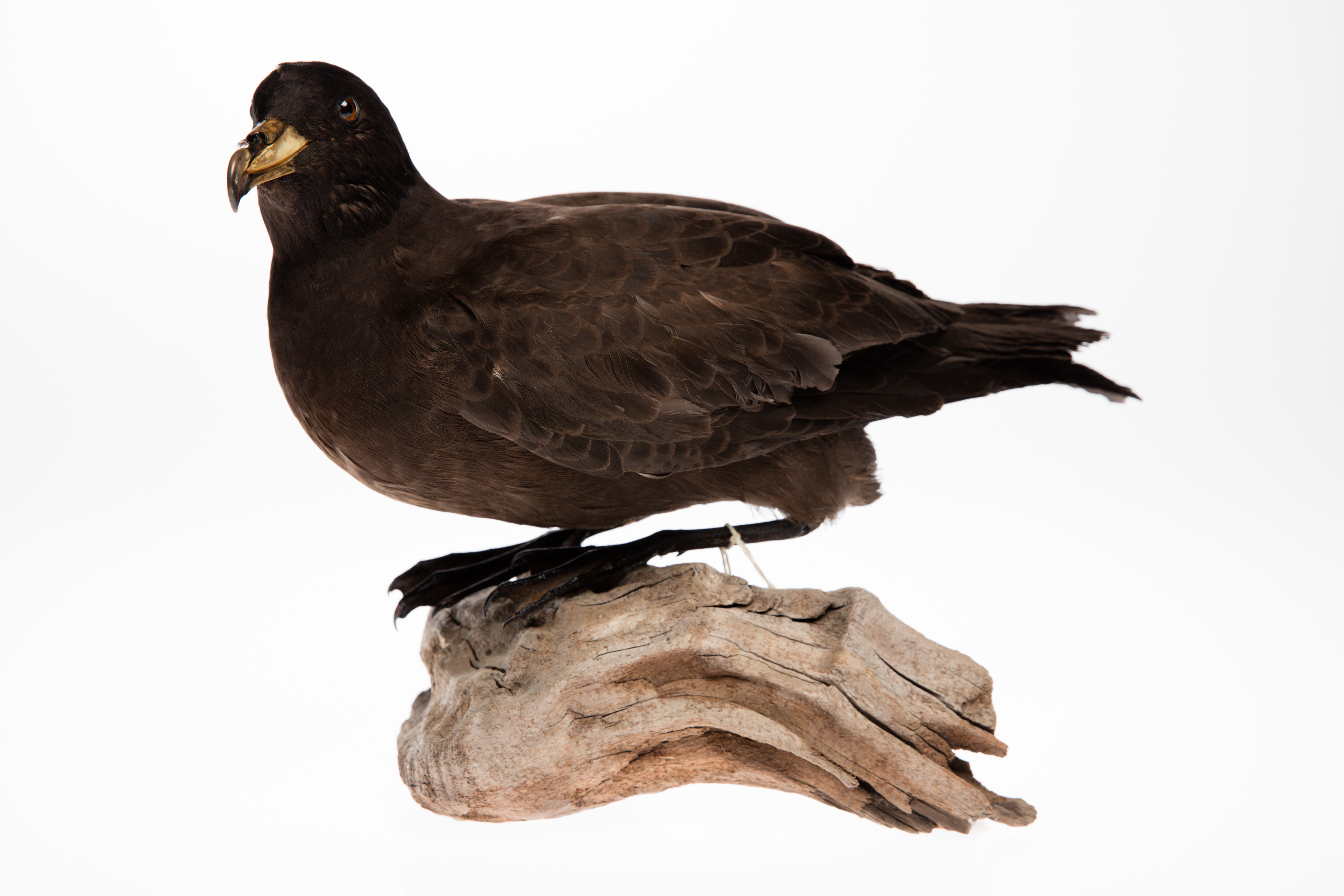 Black petrel mount (Procellaria parkinsoni) from the collection of Auckland Museum - AM LB13657